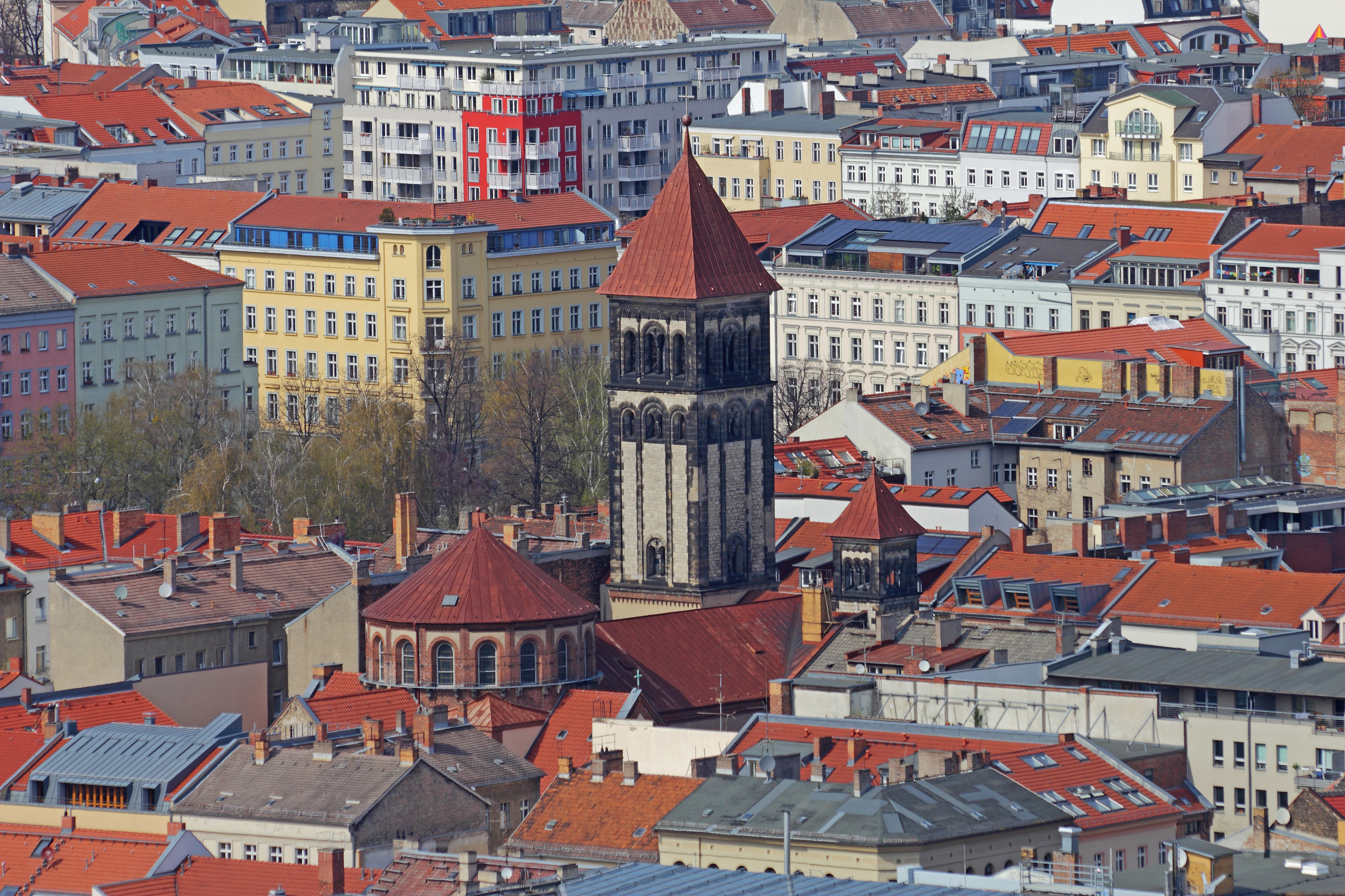 View of Berlin from the viewing point of Park Inn, Alexanderplatz.